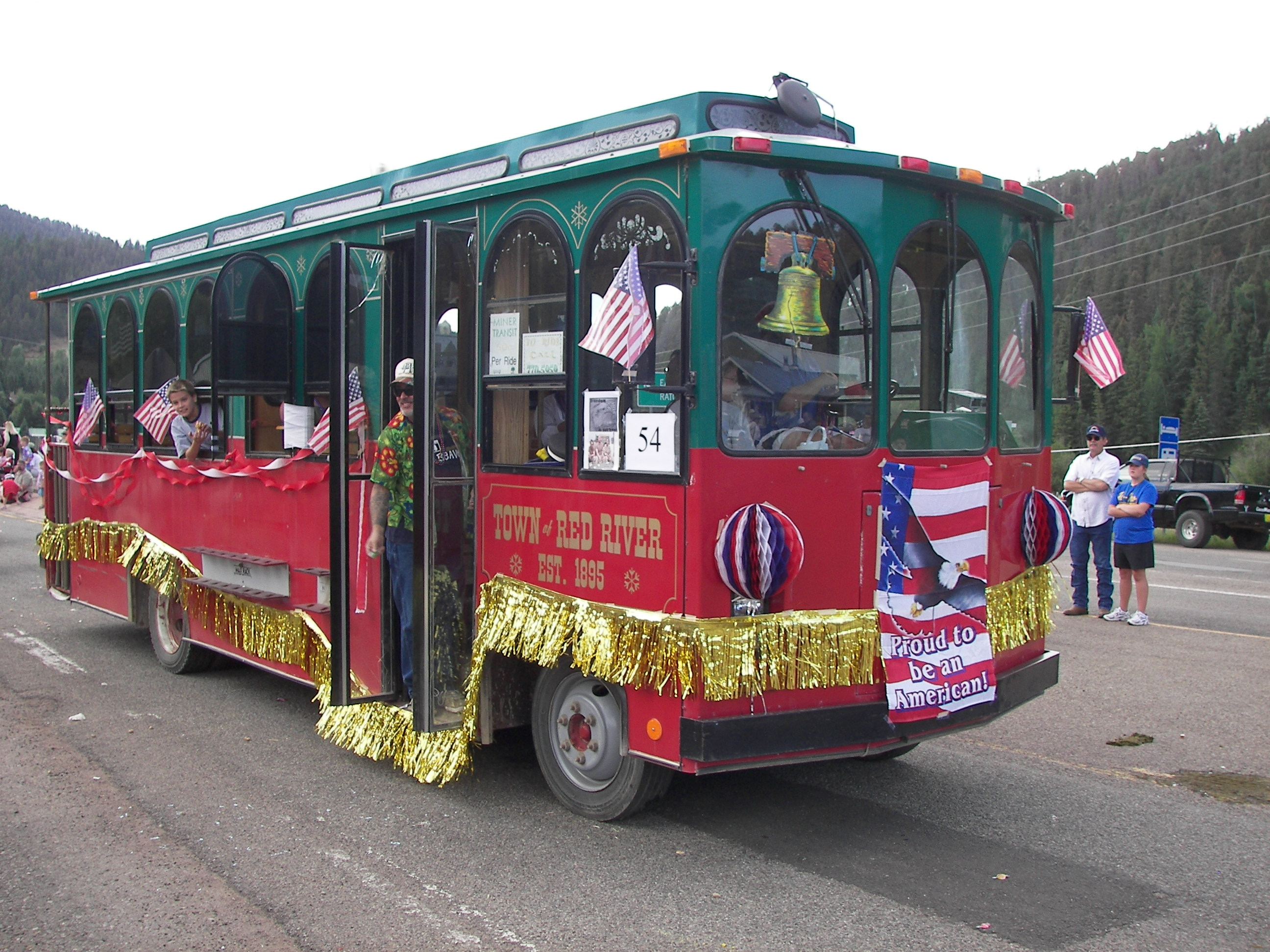 Red River, New Mexico trolley in the fourth of July parade